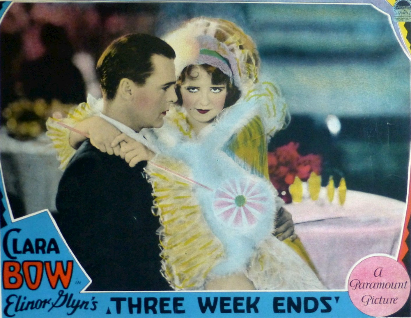 Lobby card for the American comedy drama film Three Weekends (1928). There are no copyright marks as can be seen at the links. At bottom left is Country of origin USA and a number which appears to pertain to the printing of the card. At bottom right is This lobby display leased from Paramount Famous Lasky Corporation.